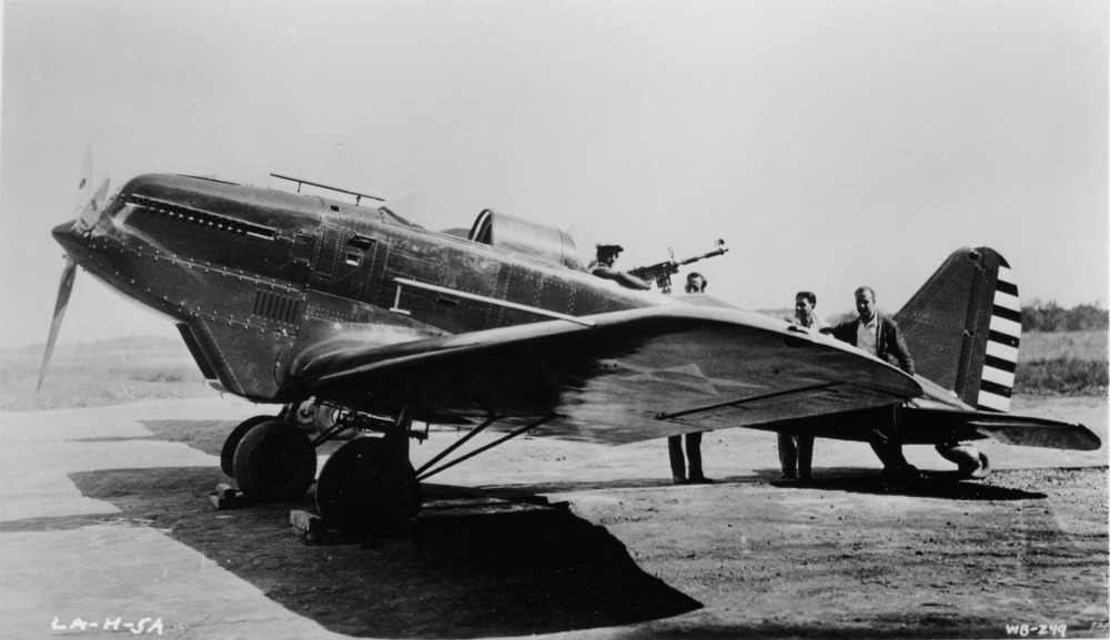 PictionID:42765670 - Title:Detroit-Lockheed YP-24 [mfr via RJF] - Catalog:17_000160 - Filename:17_000160.tif - - --------Image from the René Francillon Photo Archive. Having had his interest in aviation sparked by being at the receiving end of B-24s bombing occupied France when he was 7-yr old, René Francillon turned aviation into both his vocation and avocation. Most of his professional career was in the United States, working for major aircraft manufacturers and airport planning/design companies. All along, he kept developing a second career as an aviation historian, an activity that led him to author more than 50 books and 400 articles published in the United States, the United Kingdom, France, and elsewhere. Far from “hanging on his spurs,” he plans to remain active as an author well into his eighties.-------PLEASE TAG this image with any information you know about it, so that we can permanently store this data with the original image file in our Digital Asset Management System.--------------SOURCE INSTITUTION: San Diego Air and Space Museum Archive